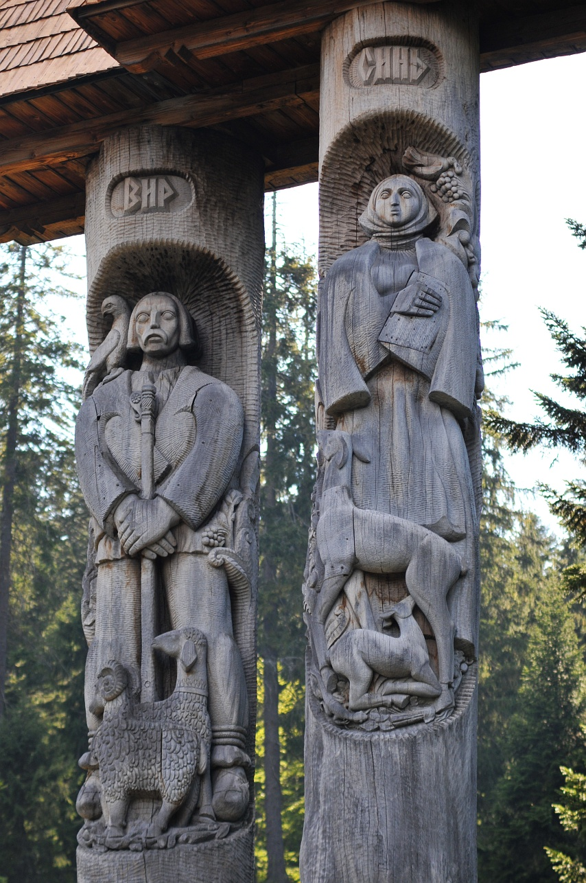 Ukraine, Transcarpathia, the Sinevir NP